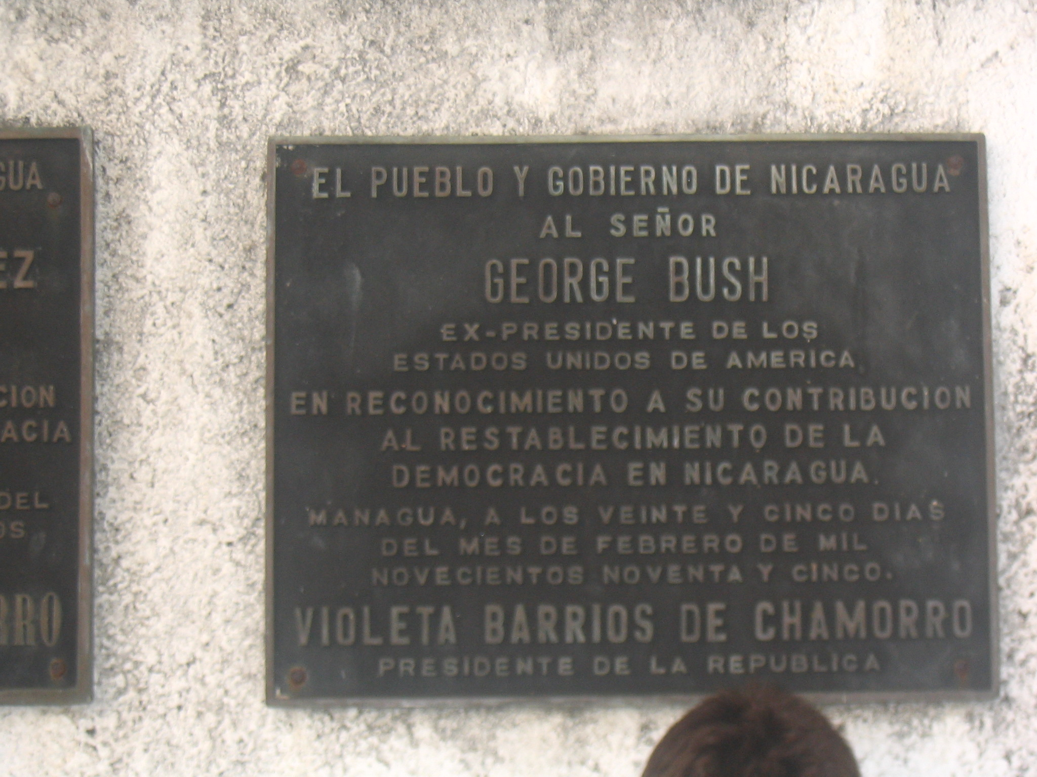 A plaque noting George Bush Sr. in Chamorro's Peace Park in Nicaragua